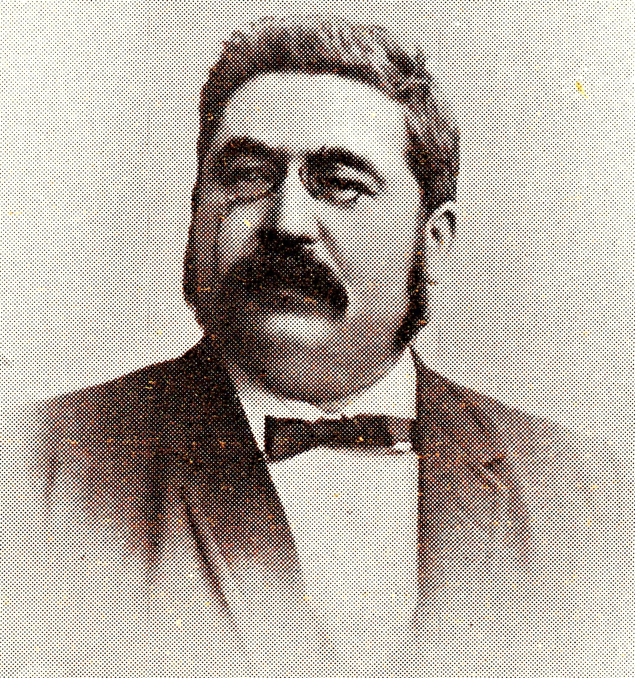 H.A. van Beuningen